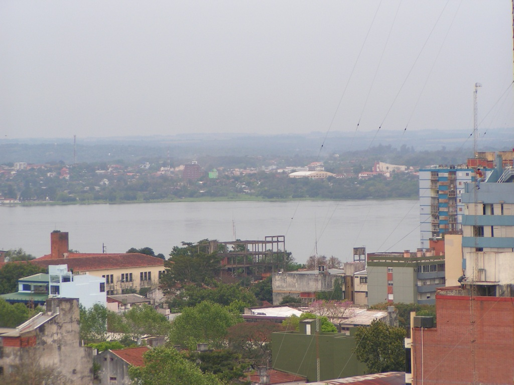 A view across the Paraná River from Posadas, Misiones, Argentina, towards Encarnación, Paraguay.Paraguay from Argentina